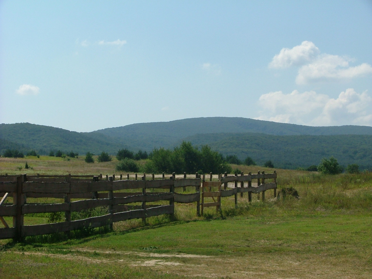 The Bakony mountains around Fenyőfő